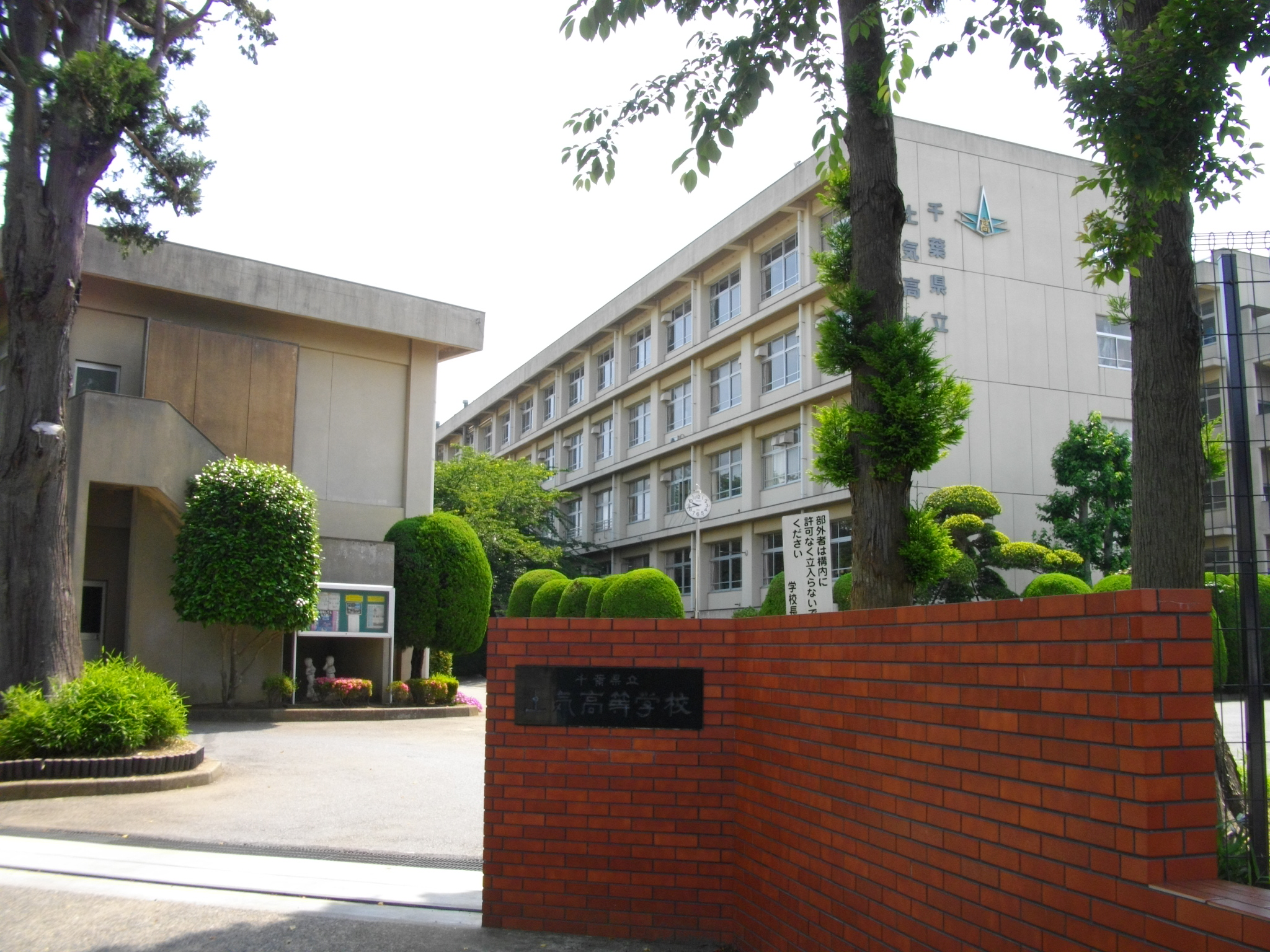 Toke High School